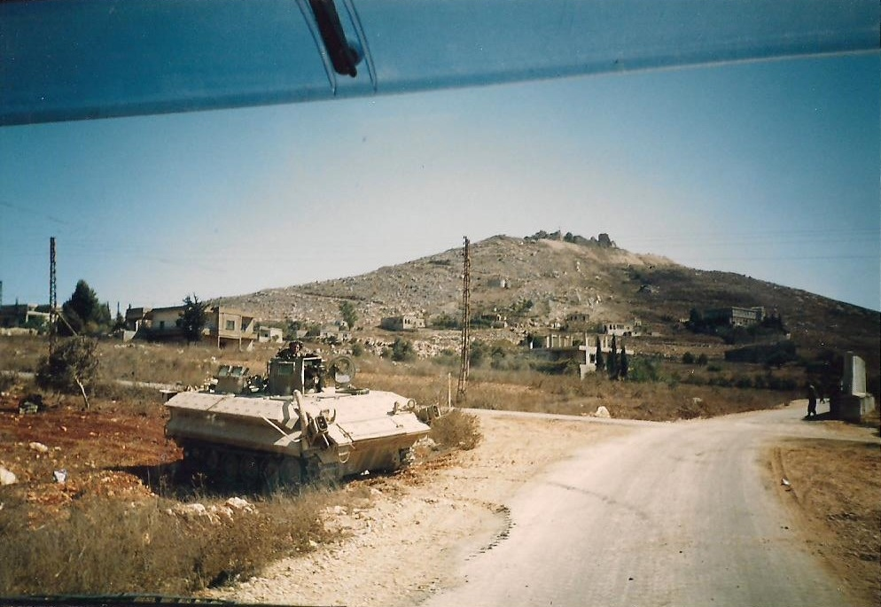 ליווי שיירה בכפר ארנון שנת 1995 (התמונה צולמה על יד עופר מרגלית)